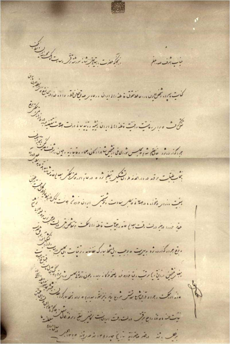 The farman (royal proclamation) of Muzaffar al-Din Shah of August 5, 1906